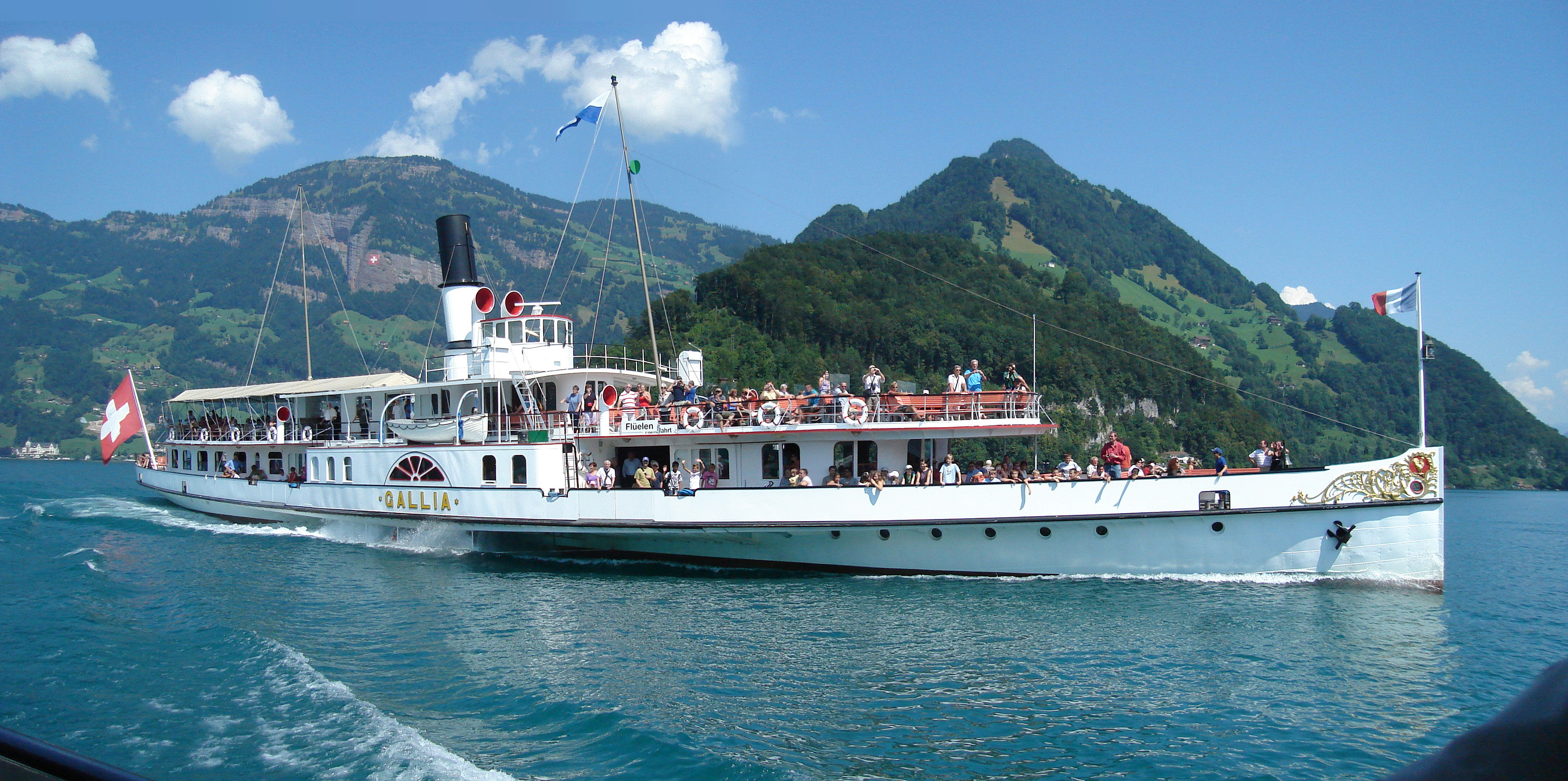 Steamboat GALLIA / Lake of Lucerne / Suisse